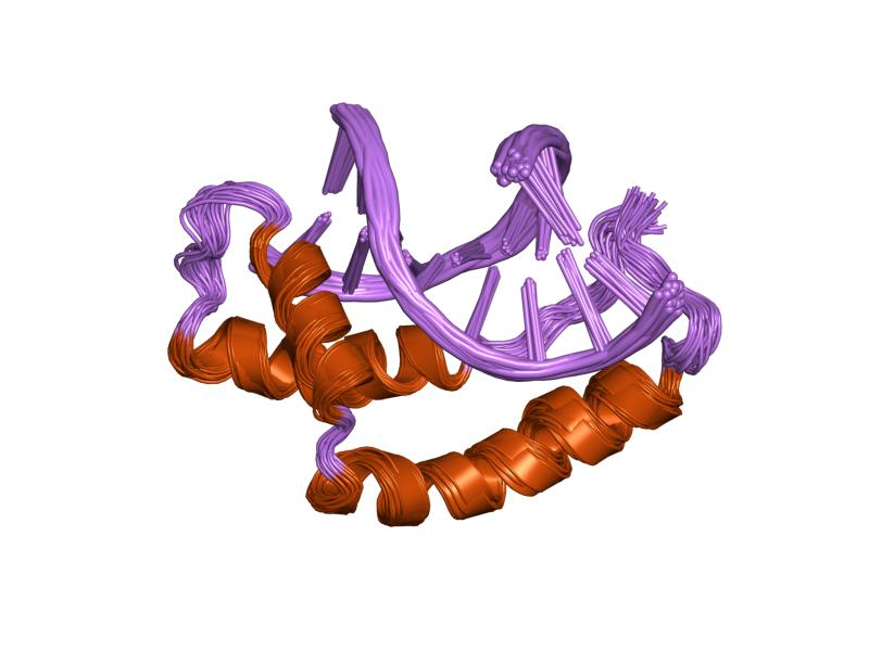 Cartoon representation of the molecular structure of protein registered with 1hrz code.